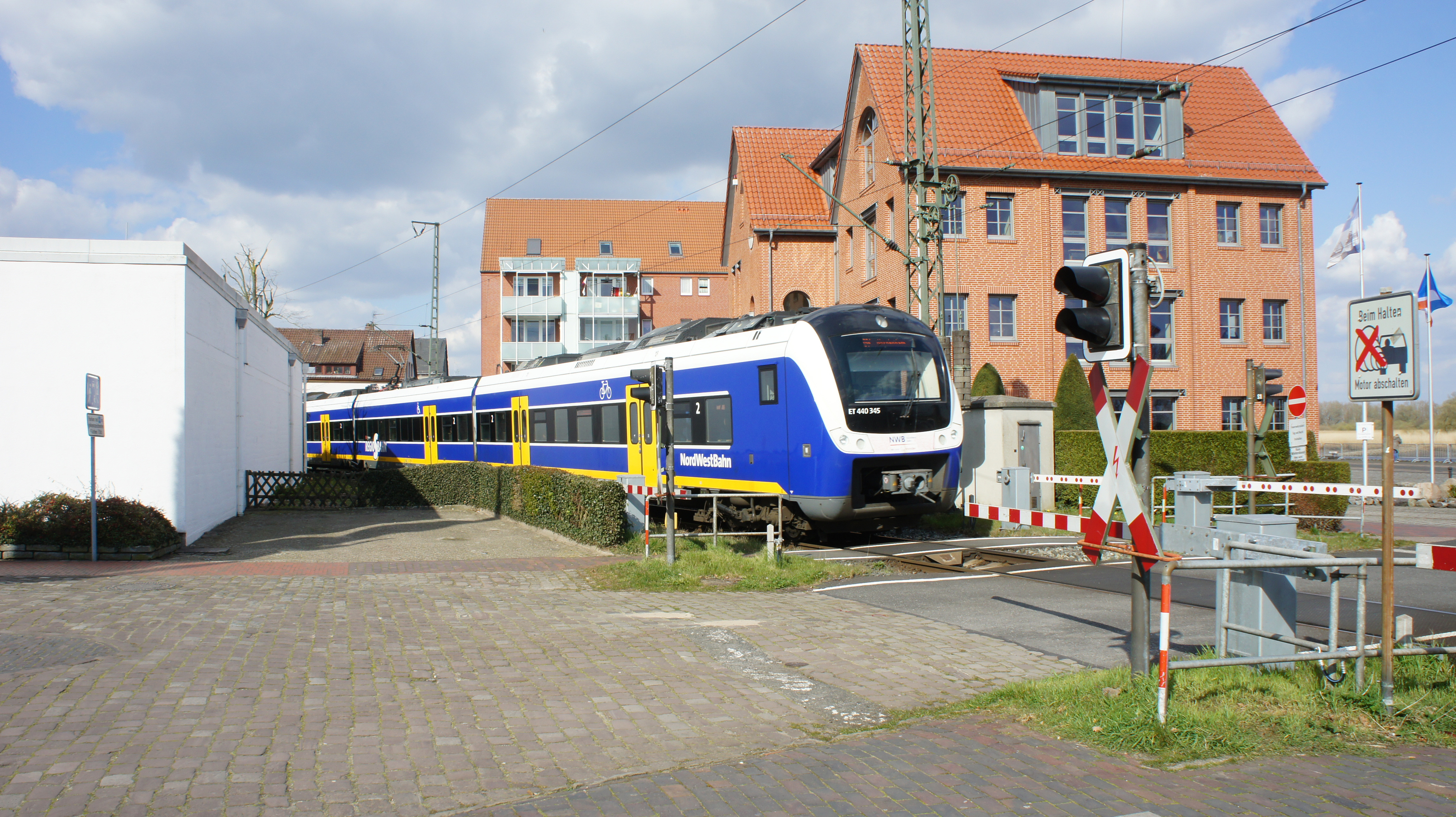 ET 440 345 of NordWestBahn as Regio-S-Bahn RS4 in Elsfleth